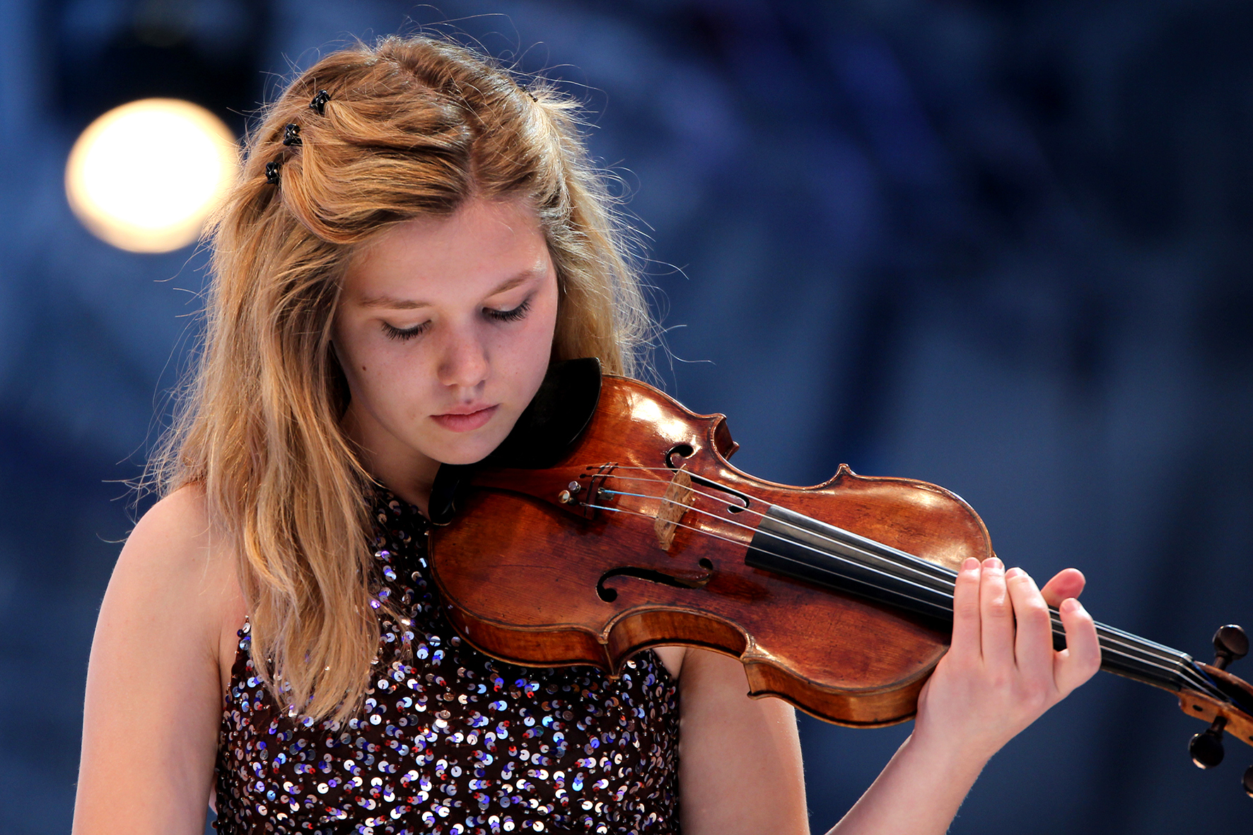 Judith Stapf at final rehearsal for Eurovision Young Musicians 2014